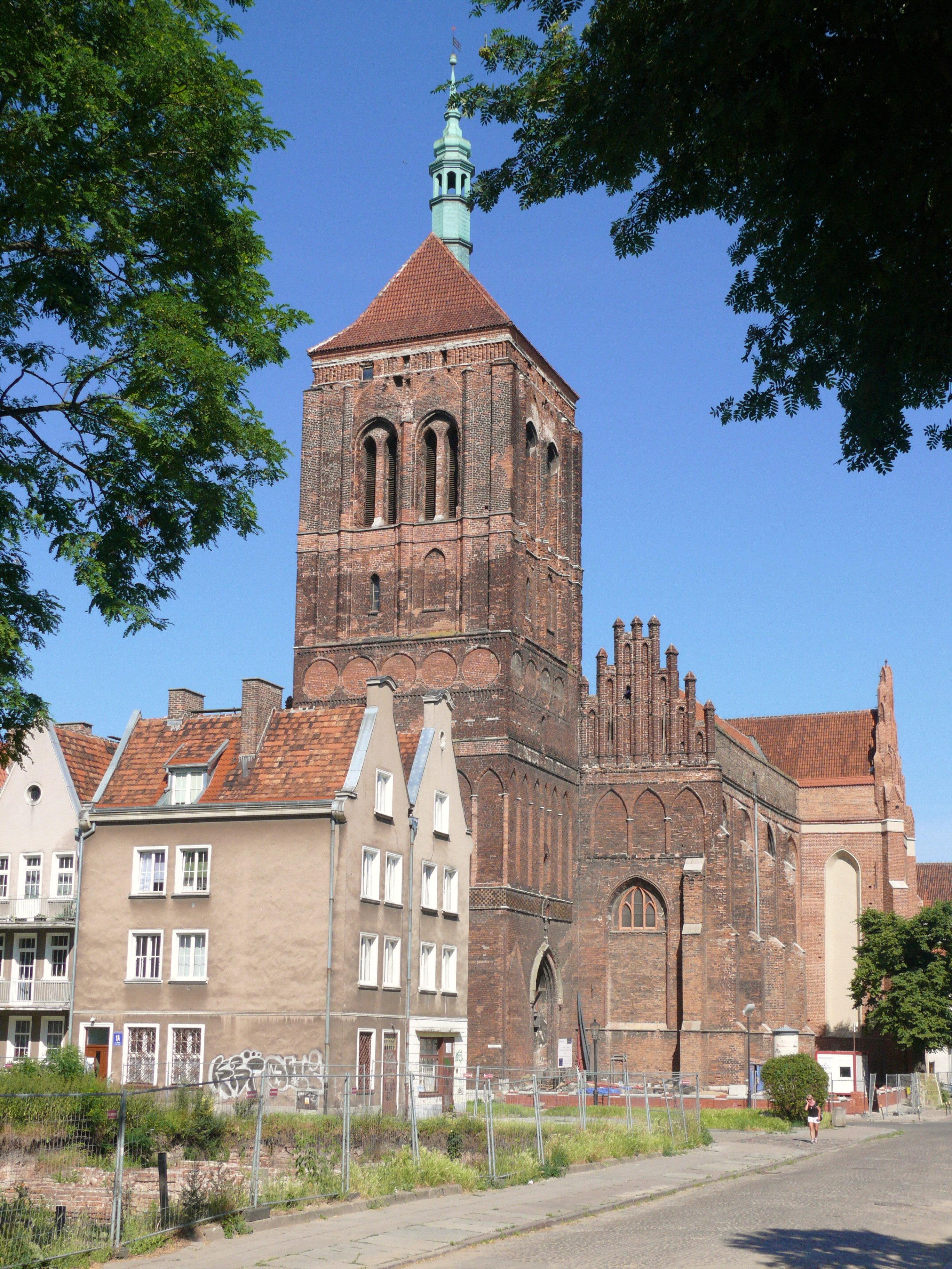 The now-closed Church of St. John, Gdańsk.